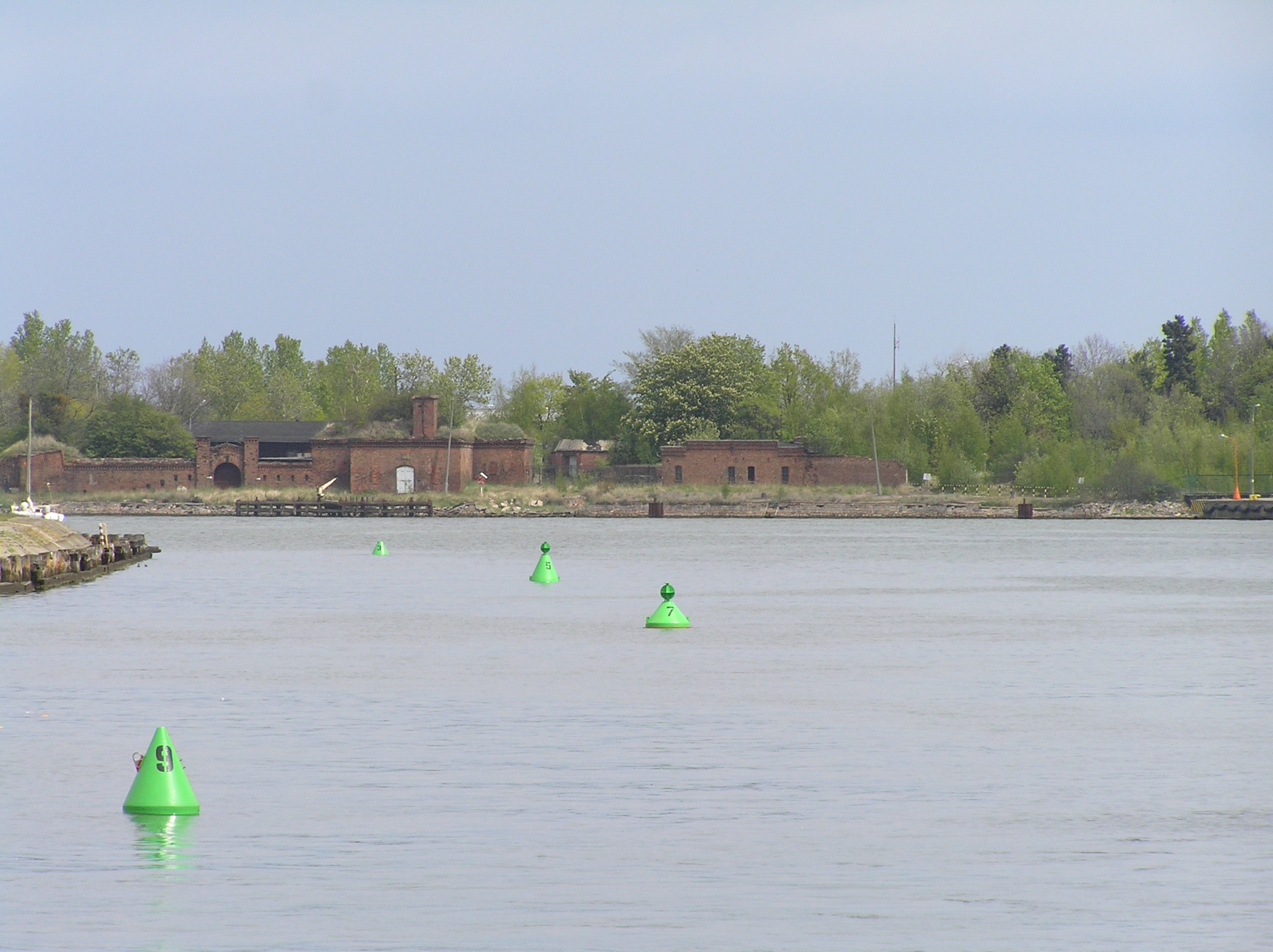 Starboard lateral sea marks in the Port of Gdańsk. In the background relics of Szaniec Mewi - a 19th century prussian fortification work.